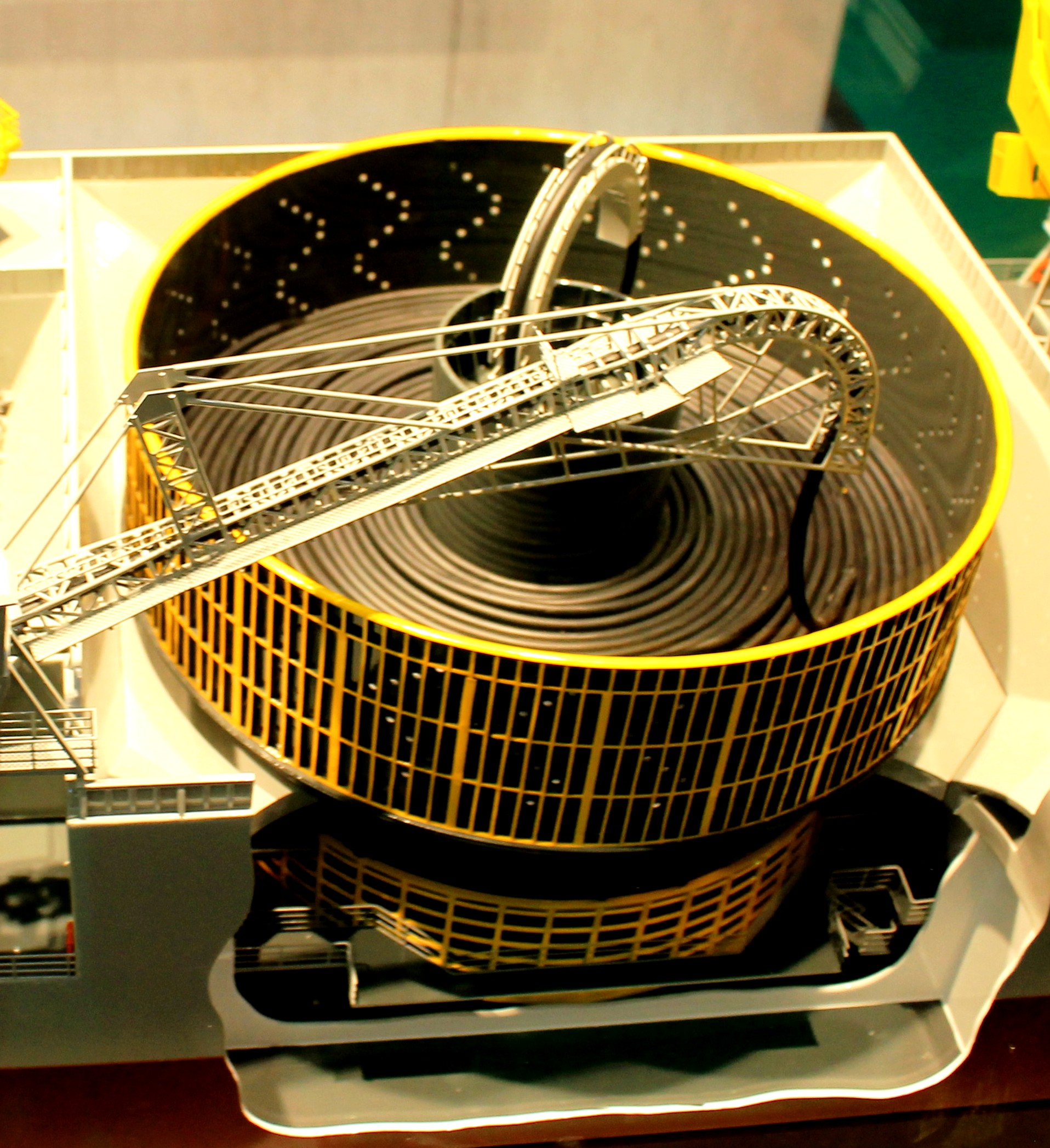 Modell der "Isaac Newton", Schnittbild mit Blick auf die beiden Kabeltrommeln